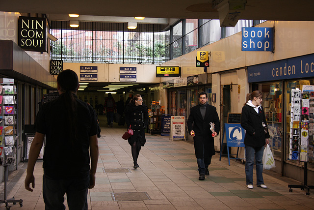 Old Street Subway Pedestrians browse the shops in the subway at Old Street Station. The entrance to the underground station itself is visible in the background.